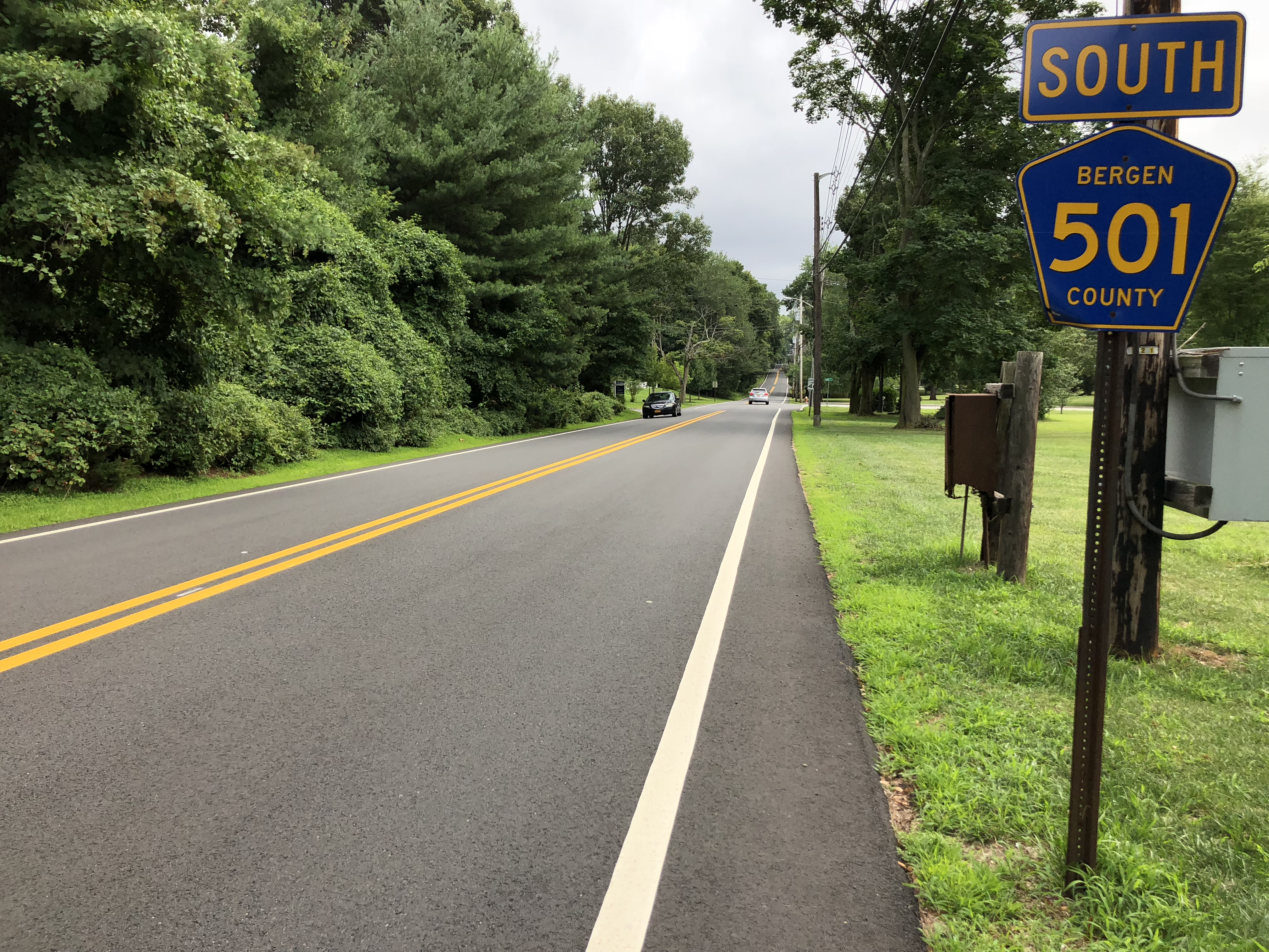 View south along Bergen County Route 501 (Piermont Road) just north of Conklin Lane in Rockleigh, Bergen County, New Jersey